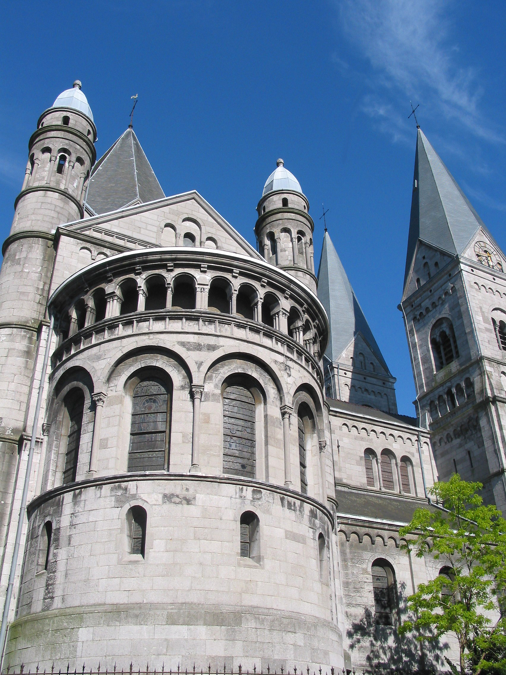 Spa, Belgium, the church of Saint Remaclus (1885).